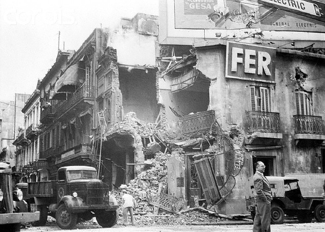 Buenos Aires, madrugada del 21 de septiembre de 1955. Tanques del Ejército destruyen la sede de la Alianza Libertadora Nacionalista.